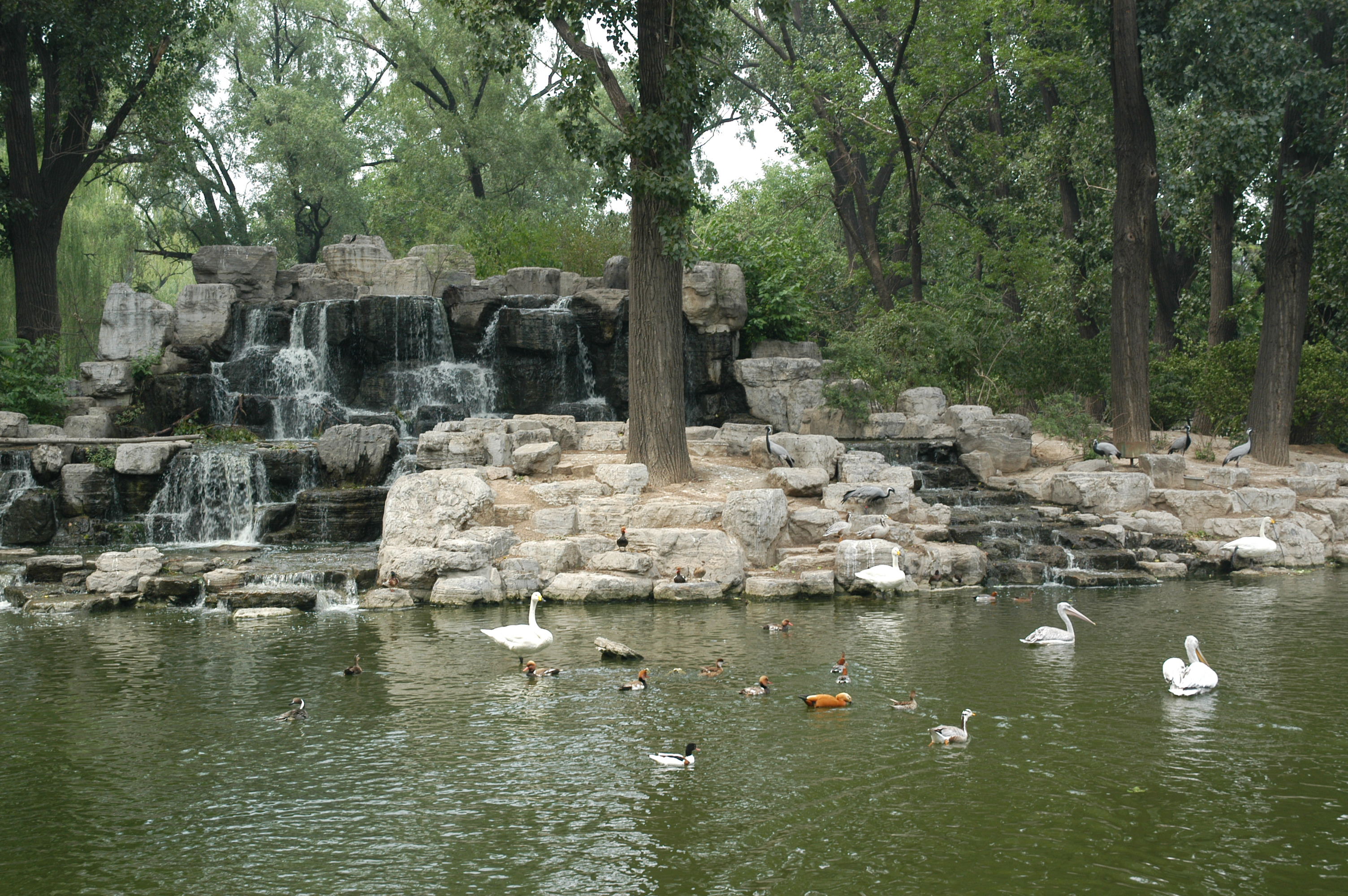 Beijing zoo birds, Beijing, China.